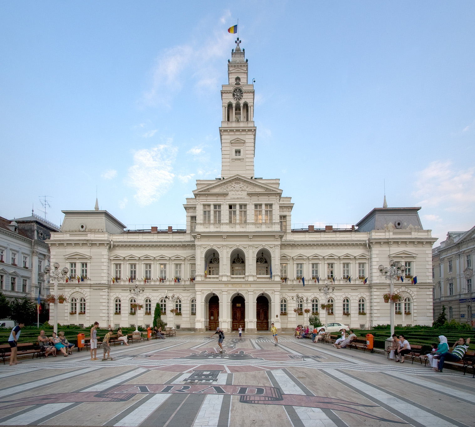 Town hall in Arad, Romania